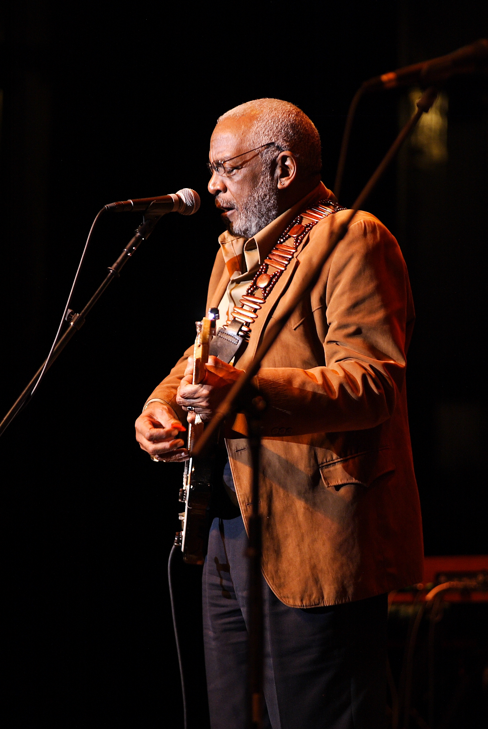 Wendell Holmes; The Holmes Brothers performed at The Grand, in Wilmington, Delaware